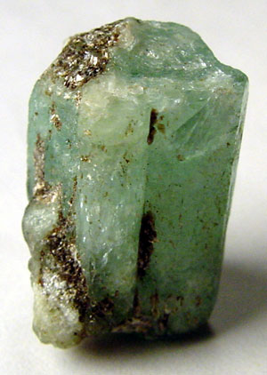 Emerald, rough.